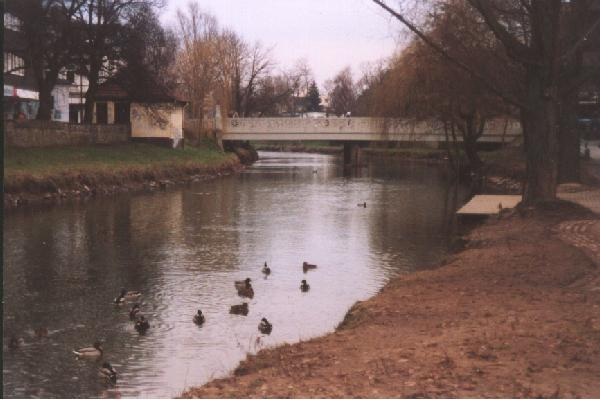 Town of Bünde, District of Herford, North Rhine-Westphalia, Germany.